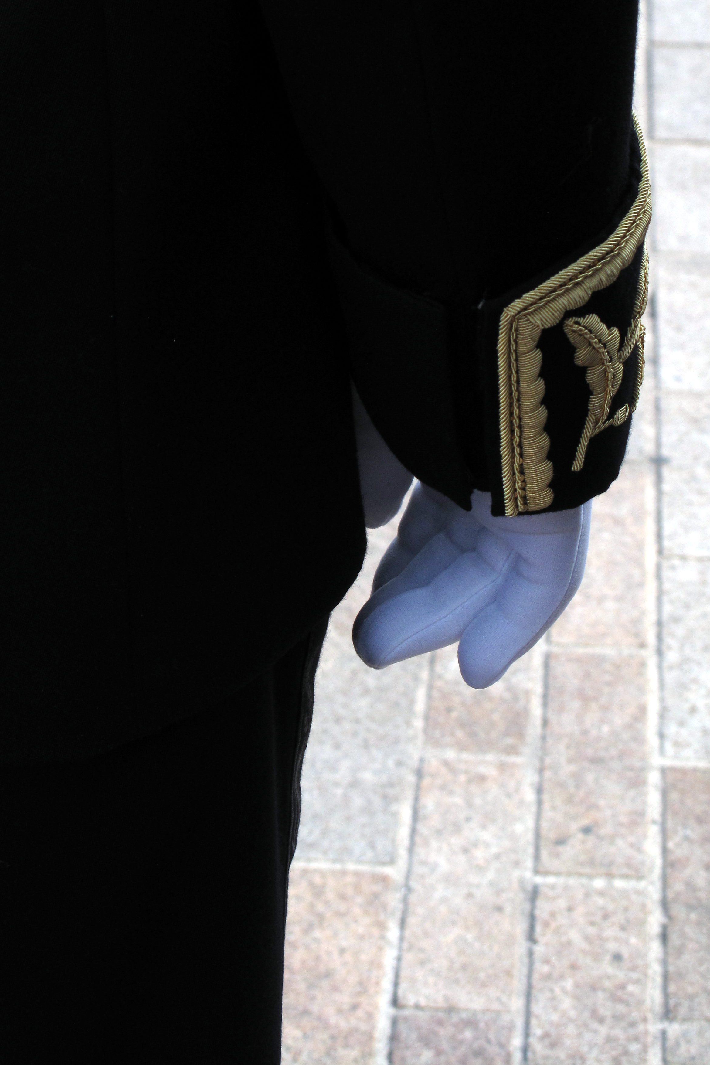 Insignia of a Préfet.